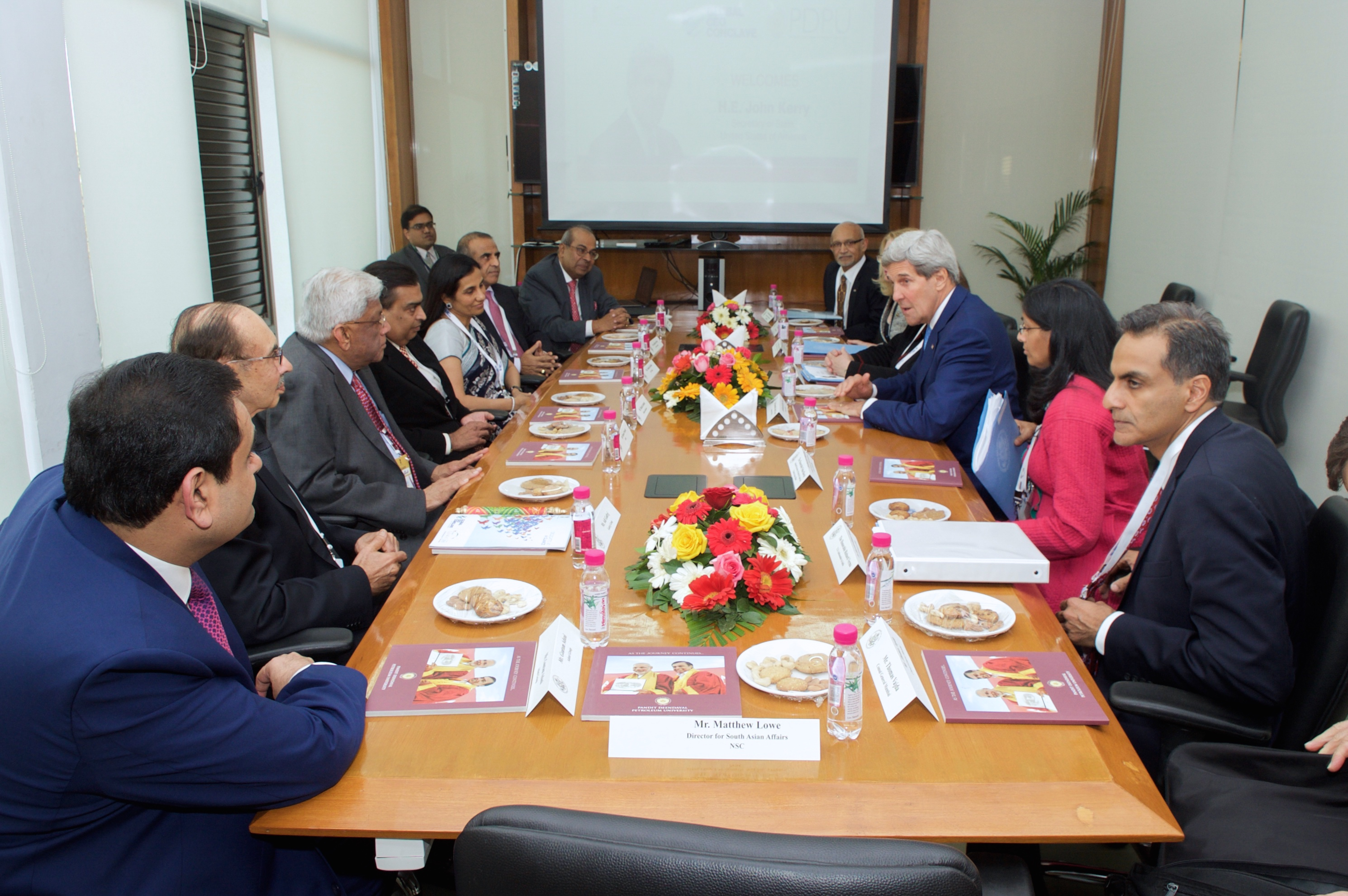 U.S. Secretary of State John Kerry sits with a group of Indian CEOs before a meeting at Pandit Deendayal Petroleum Institute on the sidelines of the 7th Vibrant Gujarat Summit in Gandhinagar, India, on January 11, 2014. [State Department photo/ Public Domain]